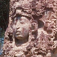 Detail of Stela H in Copán, Honduras. Depicts king Uaxaclajuun Ub'aah K'awiil represented in the role of the Maize God.